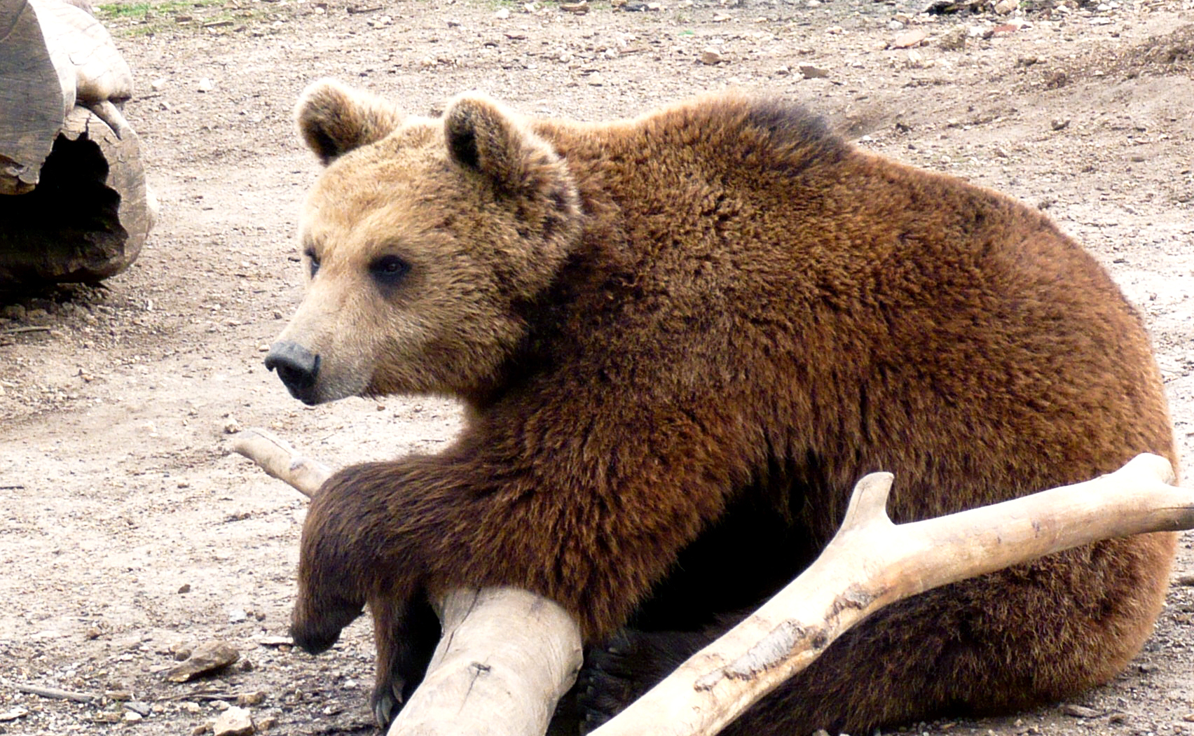 A captive bear. Dalmatia, Croatia